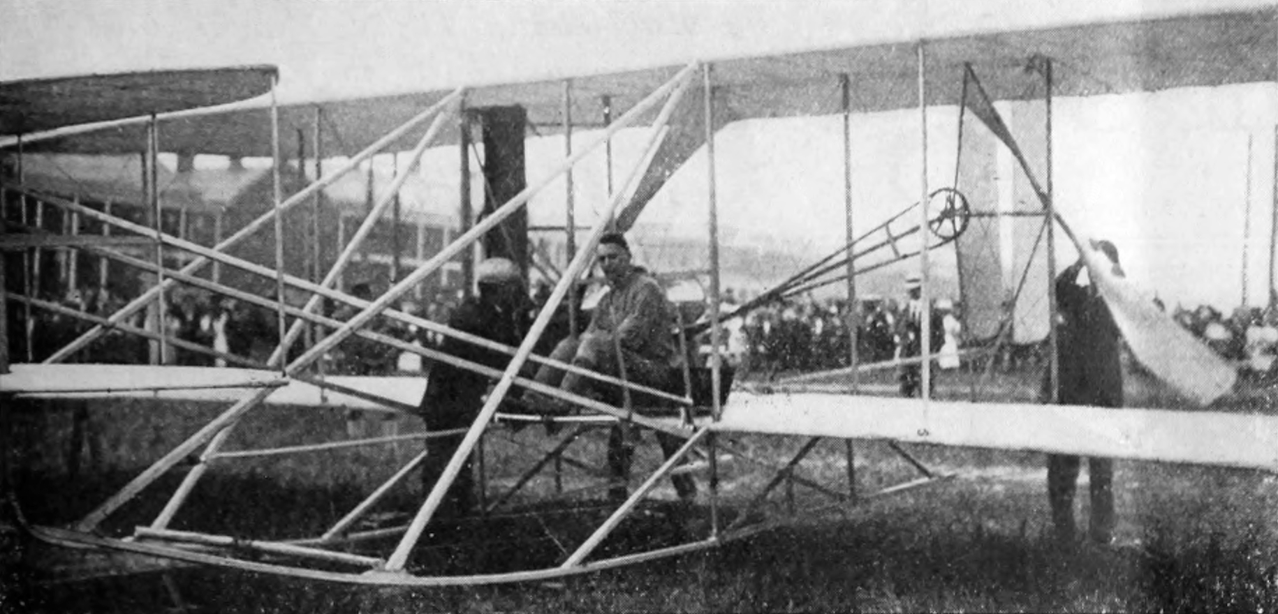 "The Tragic Flight at Fort Myer" — photograph of Orville Wright and his passenger, Army Lieutenant Thomas Selfridge, before their flight on September 17, 1908 Caption:Lieutenant Selfridge and Mr. Wright stepping into the Wright aeroplane at Fort Myer